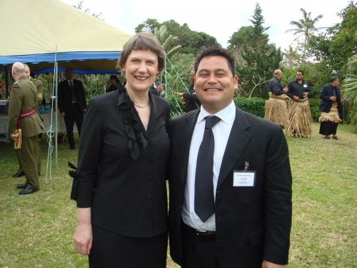 Charles Chauvel with former New Zealand Prime Minister Helen Clark